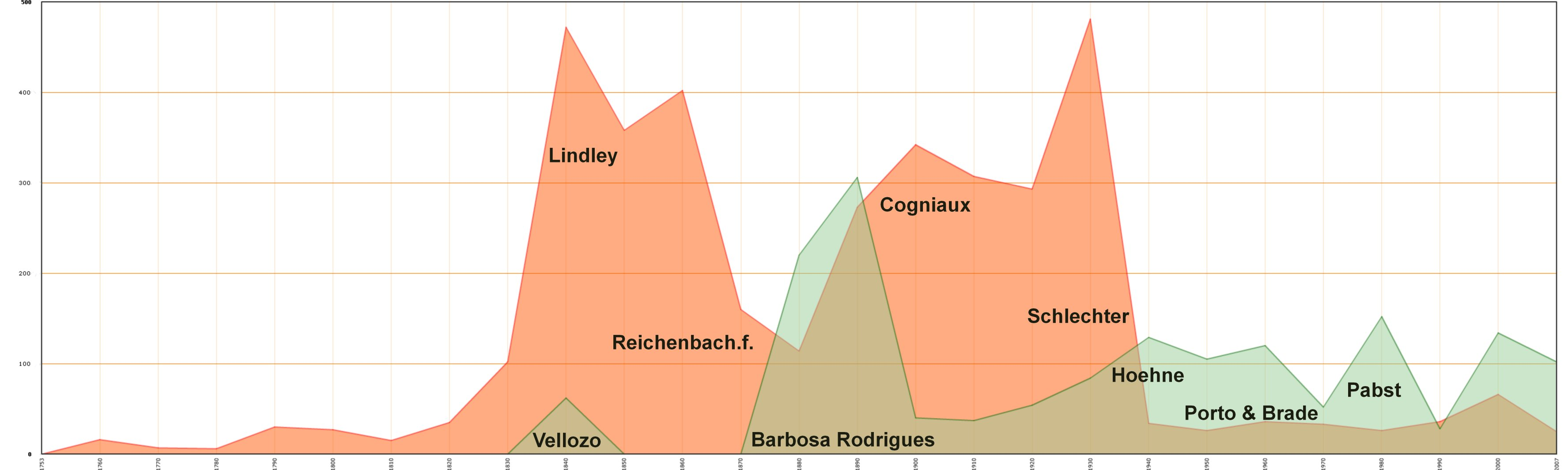 Chart showing the number of orchids of Brazil published by decade. Lines are hundreds of species and decades, first publication is dated 1753 and last considered is 2007.